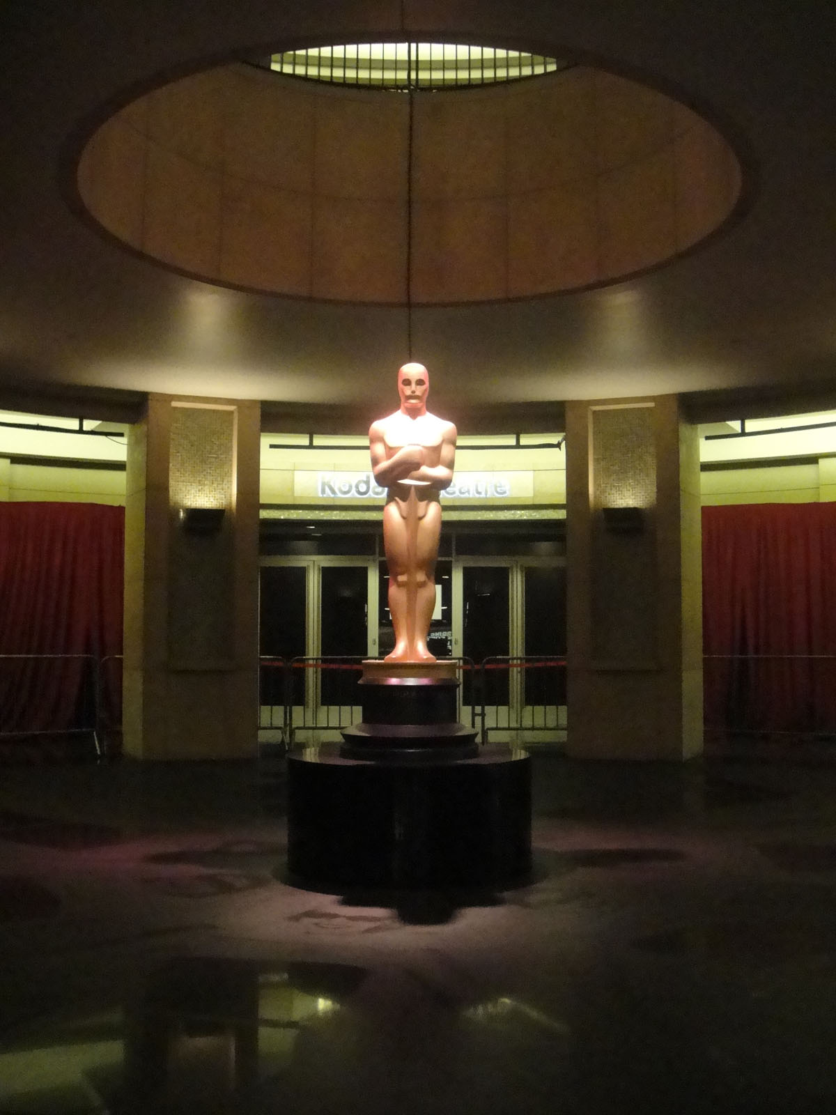 photo 2012 Pop Culture Geek taken by Doug Kline If you're interested in higher resolution versions of my images, contact me via my profile page.